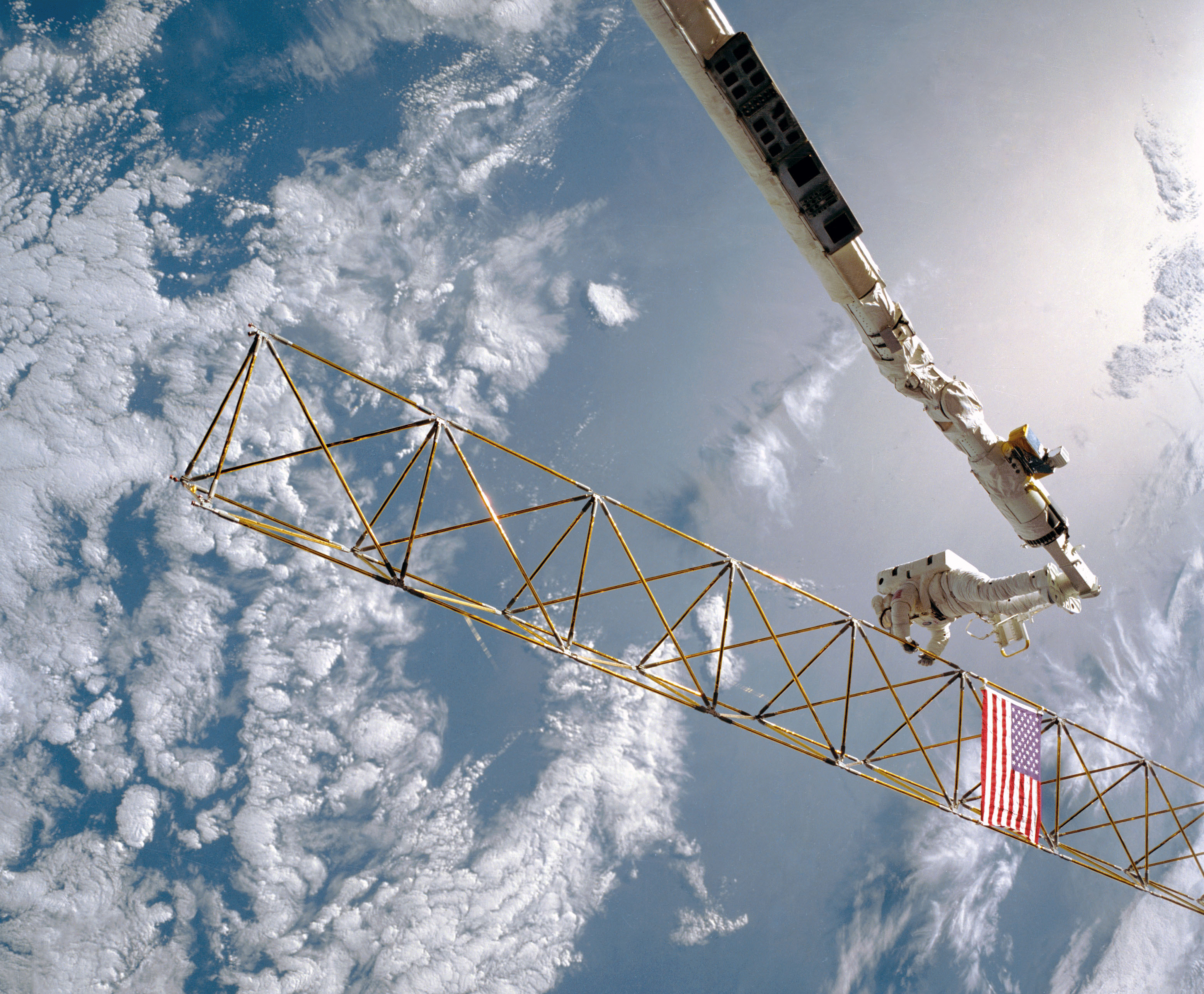 Astronaut Sherwood C. Spring, anchored to the foot restraint on the remote manipulator system (RMS) arm, checks joints on the tower-like Assembly Concept for Construction of Erectable Space Structures (ACCESS) device extending from the payload bay as the Atlantis flies over white clouds and blue ocean waters. The Gulf of Mexico waters form the backdrop for the scene.